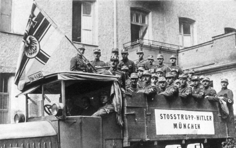 Information added by Wikimedia users.This image probably does not show neither Hitler Putsch nor Kapp Putsch but an SA unit at the Deutscher Tag in Bayreuth, cf.